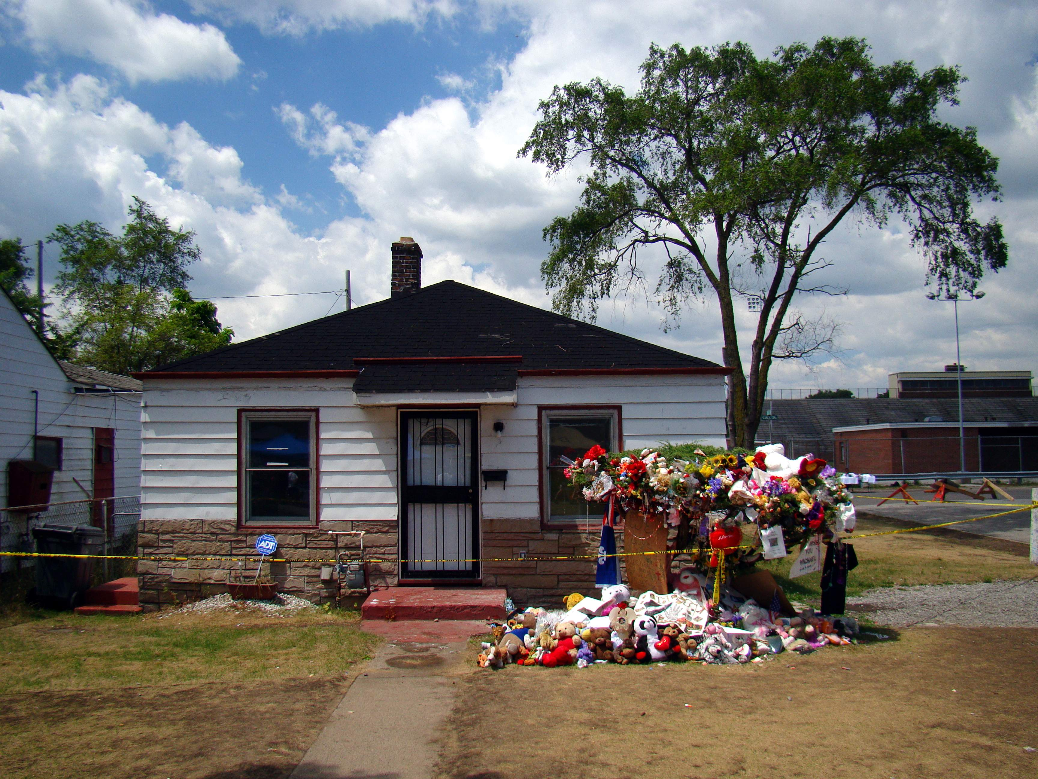 Photo of the childhood home of Michael Jackson, 2300 Jackson Street, Gary, Indiana. Taken by Volkan Yüksel on 25 July 2009, showing floral tributes after Jackson's death. Copyright released at Talk:Michael_Jackson#MJ_Birth_Place_and_location_on_Panoramio. The Original Panoramio Page where this photo was made accessible to public for view the first time. It also has map indicating exact location of the place where this photo was taken. The Panoramio Page for the new photo taken by Volkan Yuksel on 17 October 2010 showing the erected monument and renovation of the house. It also has map indicating exact location of the place where the photo was taken.